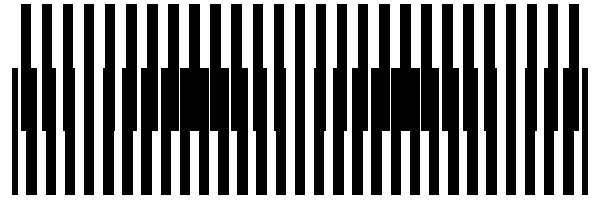 Two overlaping stripe patterns create a line moire. Picture created in Mathematica 5.2.